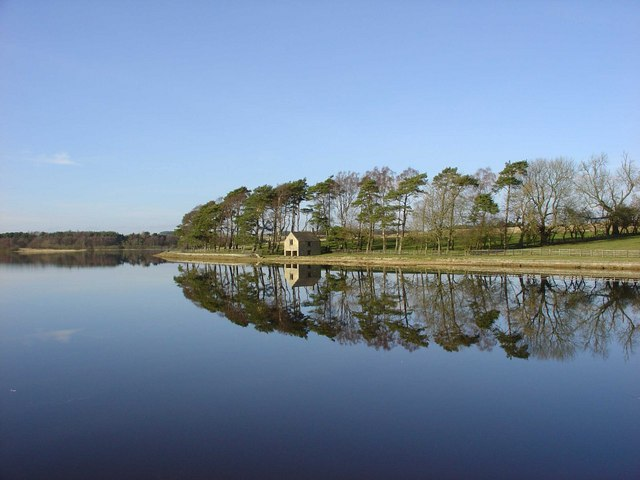 Hallington West Reservoir. Built at the end of the 19th century to provide water for Newcastle and Gateshead